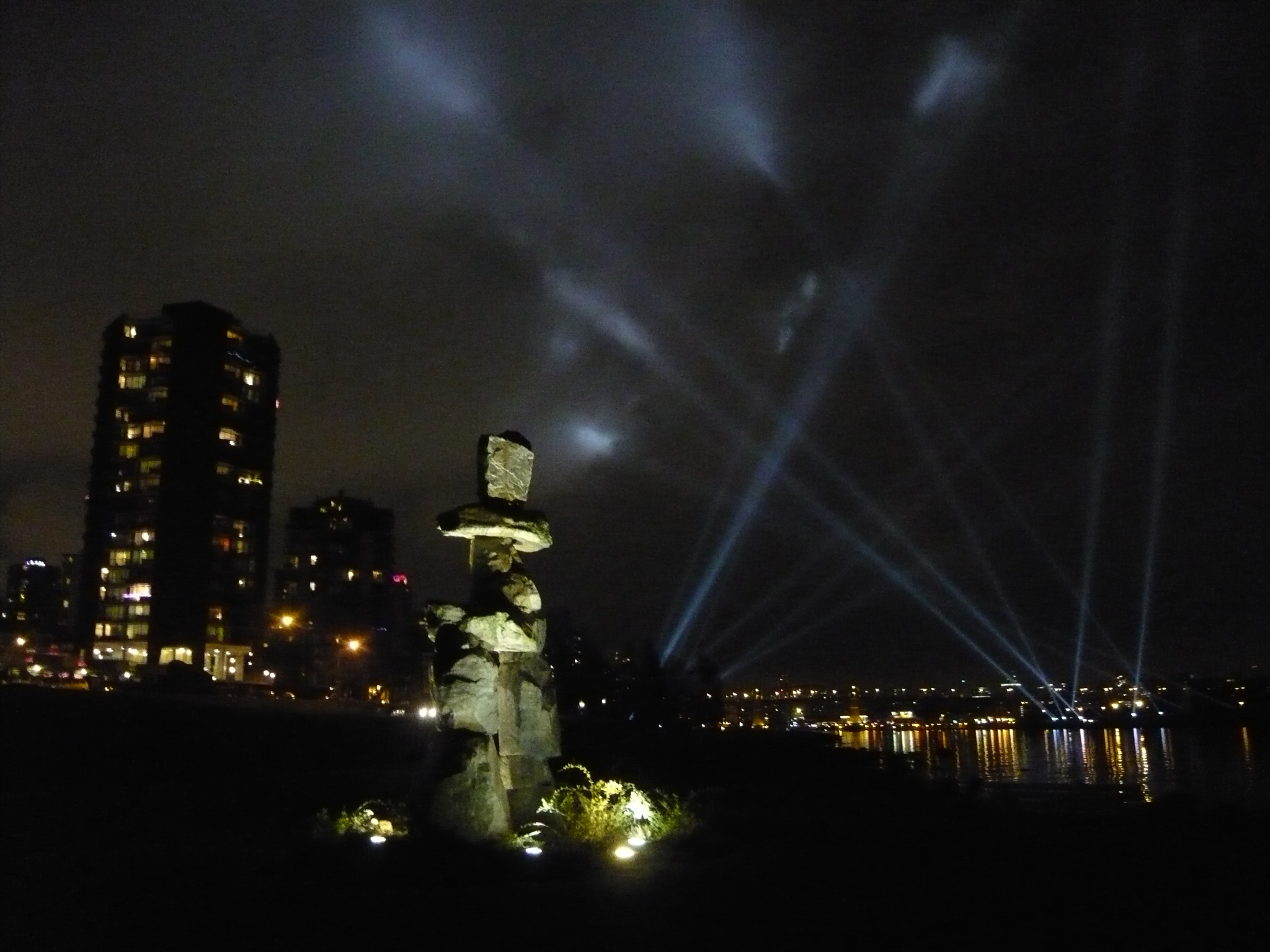 Vancouver 2010@English Bay.